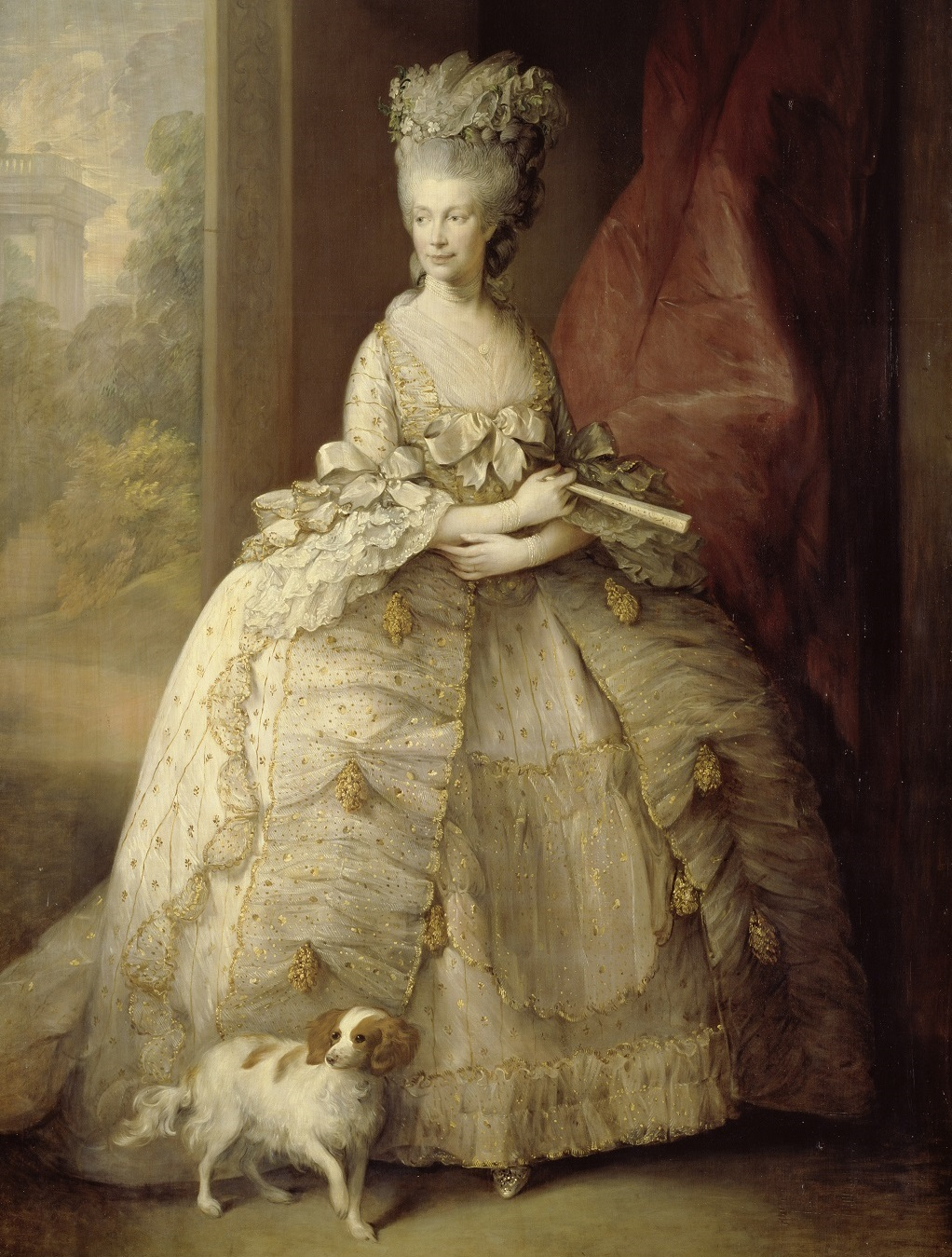 Queen Charlotte oil on canvas 238 x 186 cm circa 1781